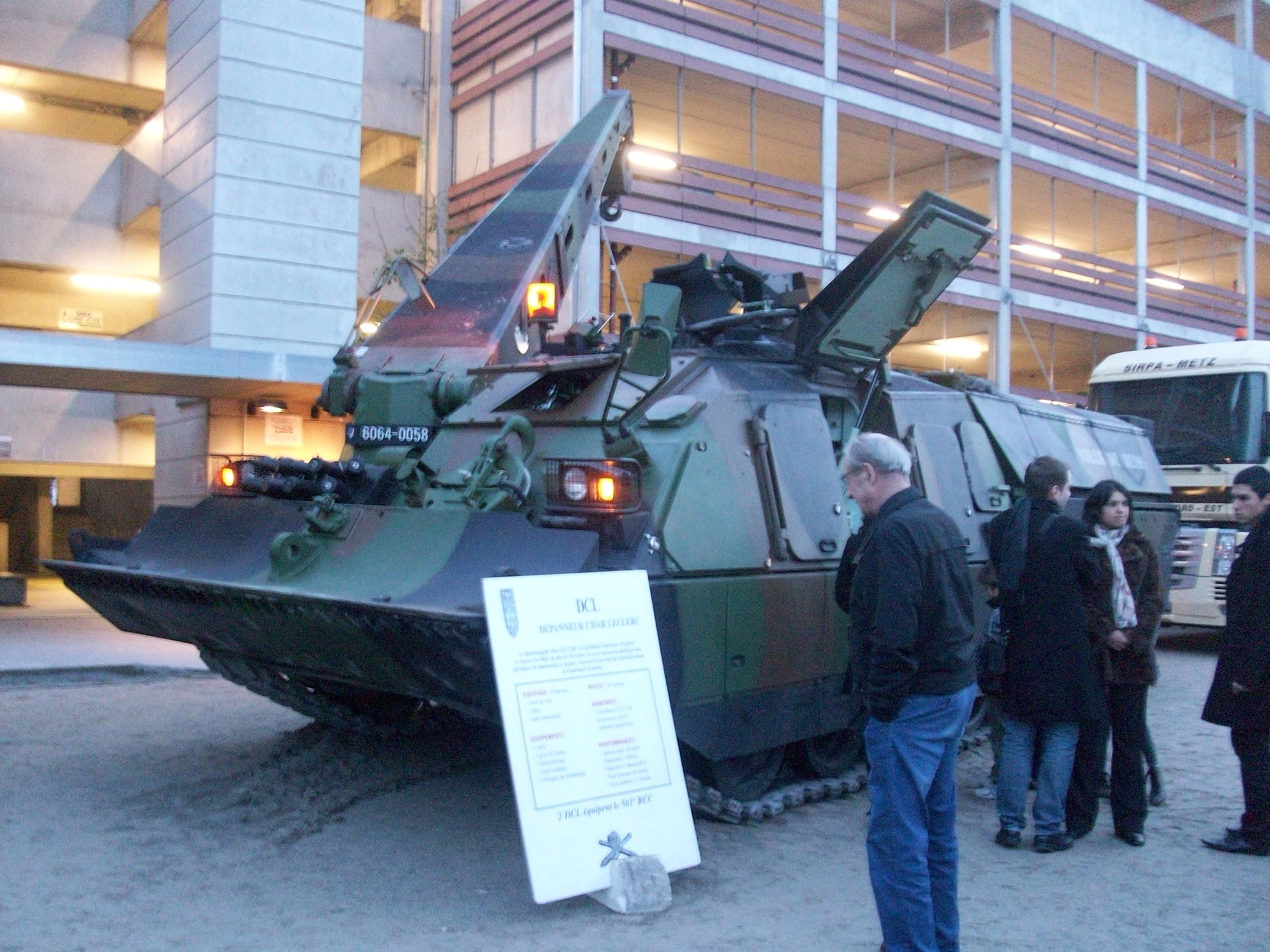 French dépanneuse de char (towing tank}. Public showing of French Army vehicles, in front of Rivétoiles, in Strasbourg.